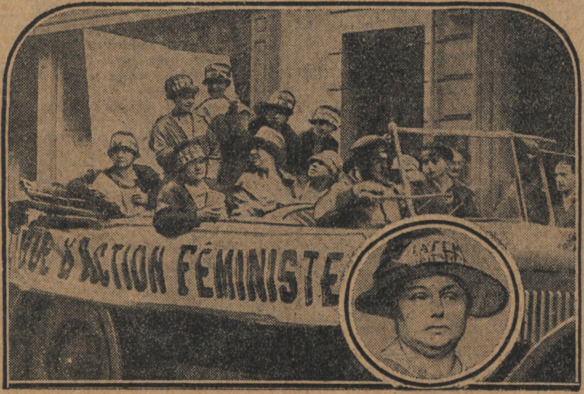 Marthe Bray from "Le Journal" newspaper 8 September 1926